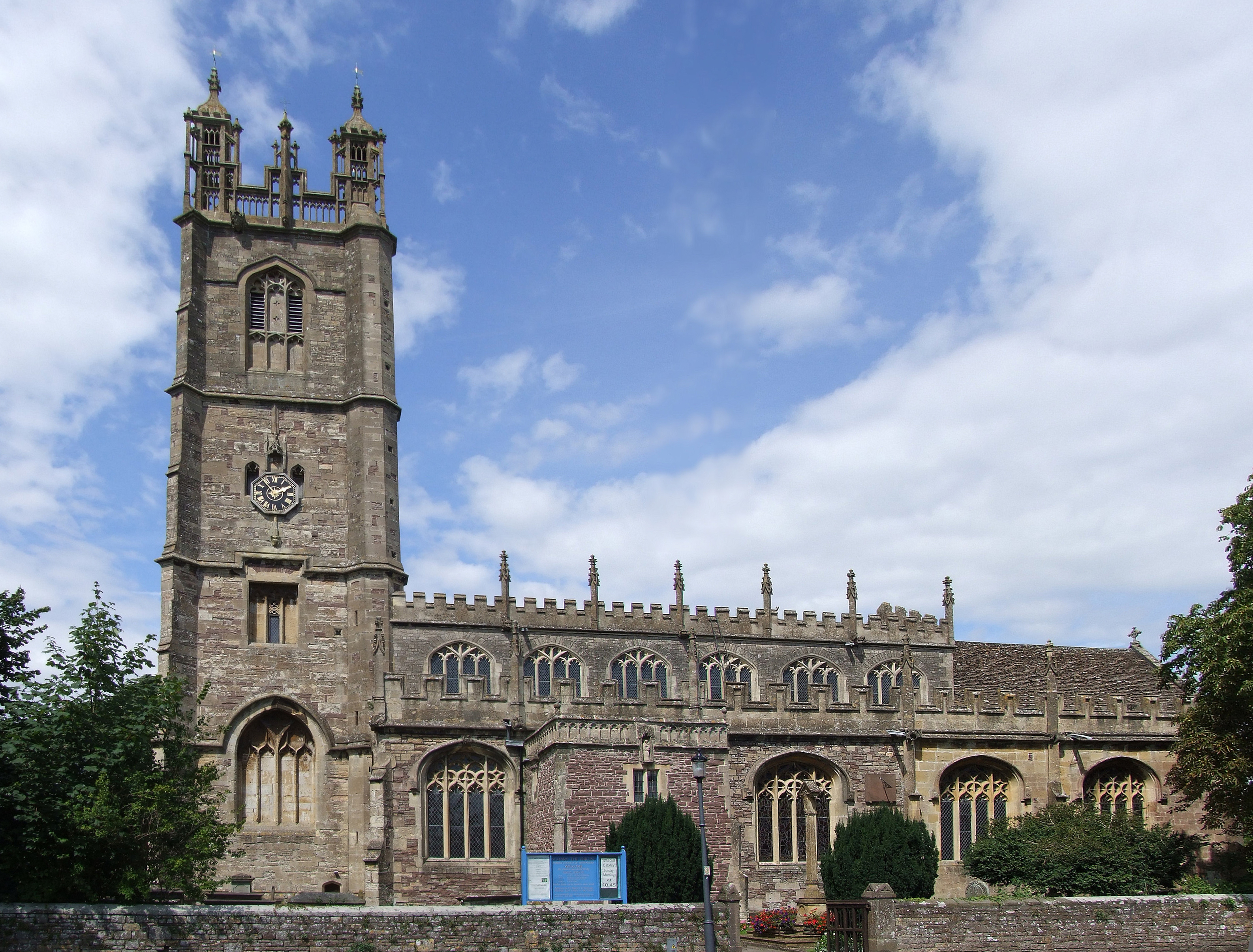 Church of St Mary the Virgin in Thornbury, South Gloucestershire.